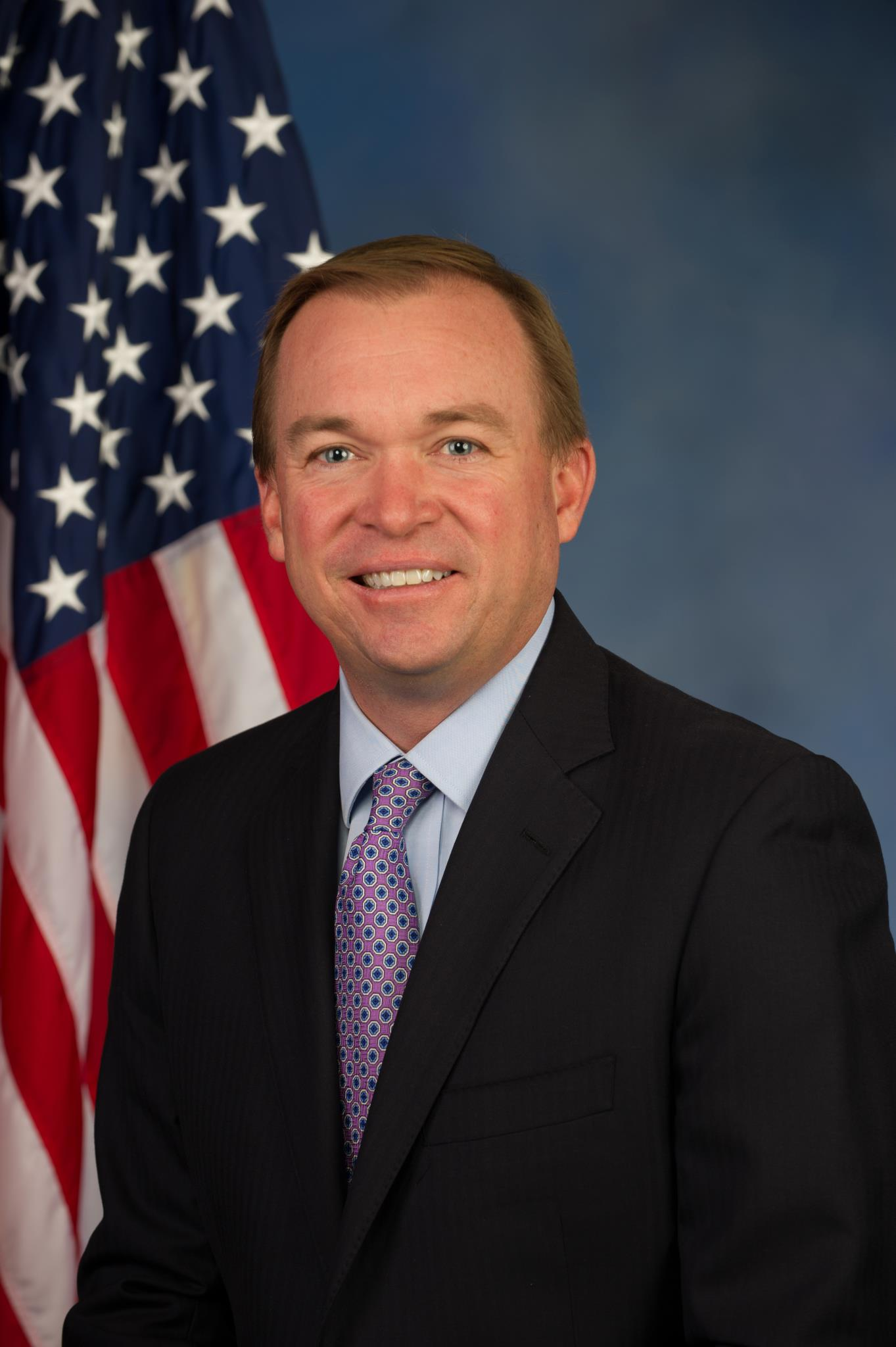 US Rep Mick Mulvaney